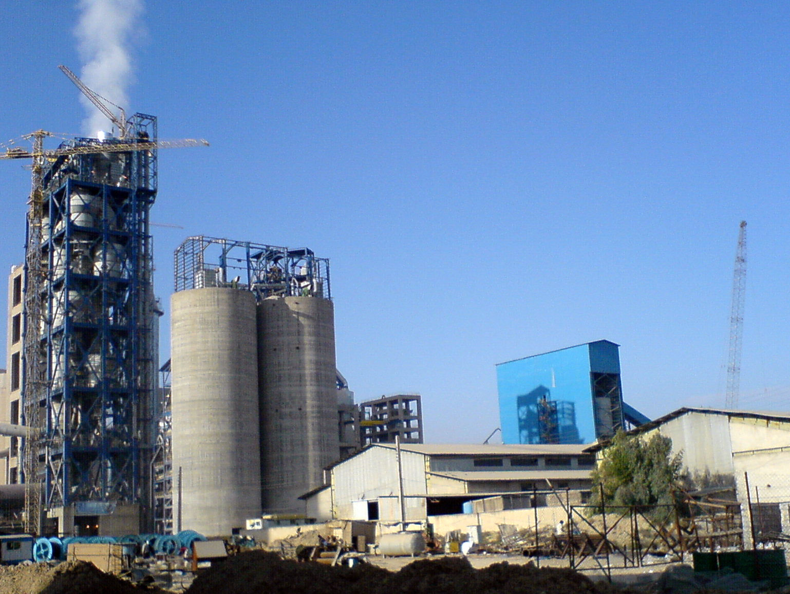 Haftkel cement plant in Haftkel county.